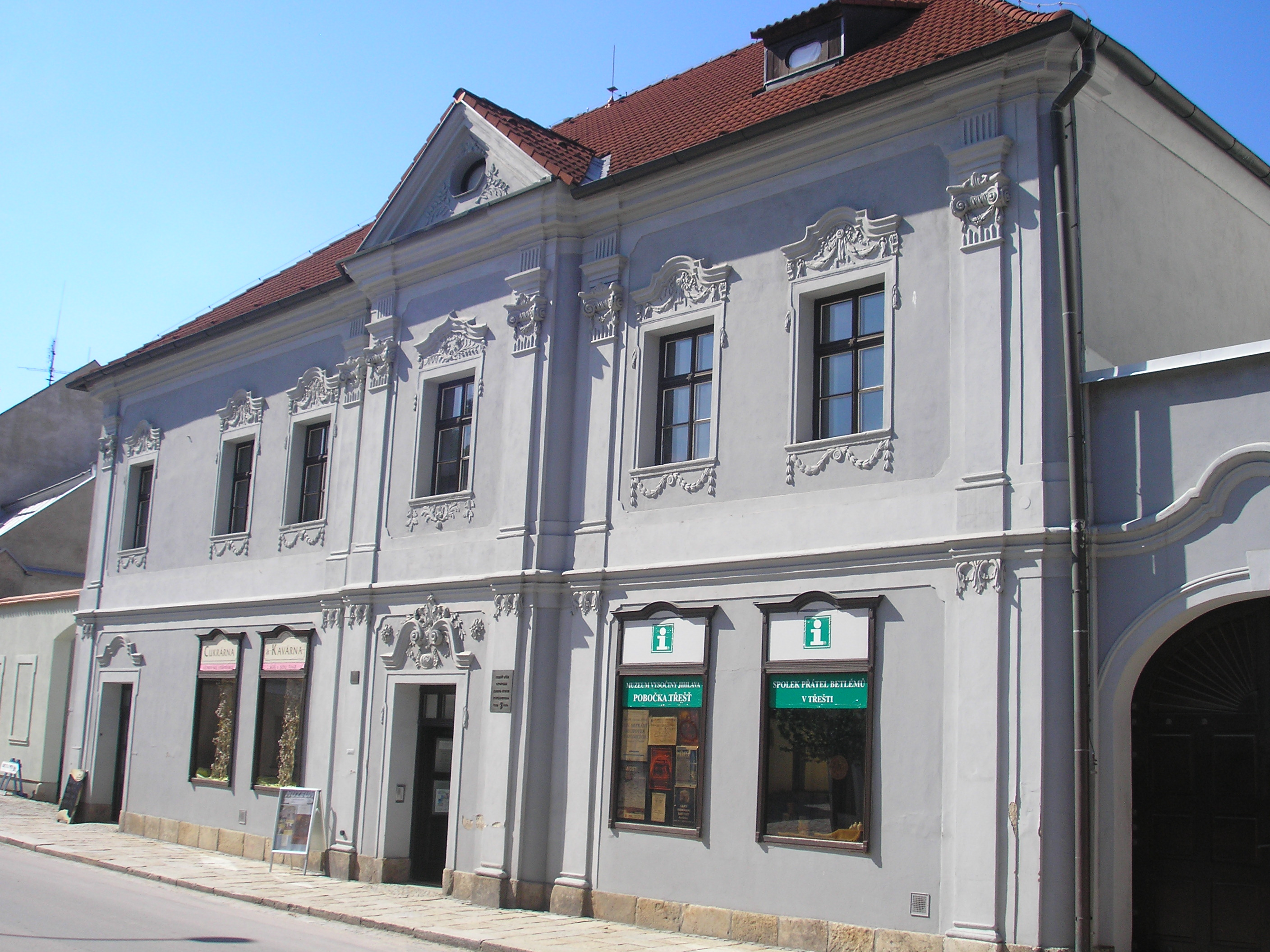 Parental home of Josef Alois Schumpeter in Třešť